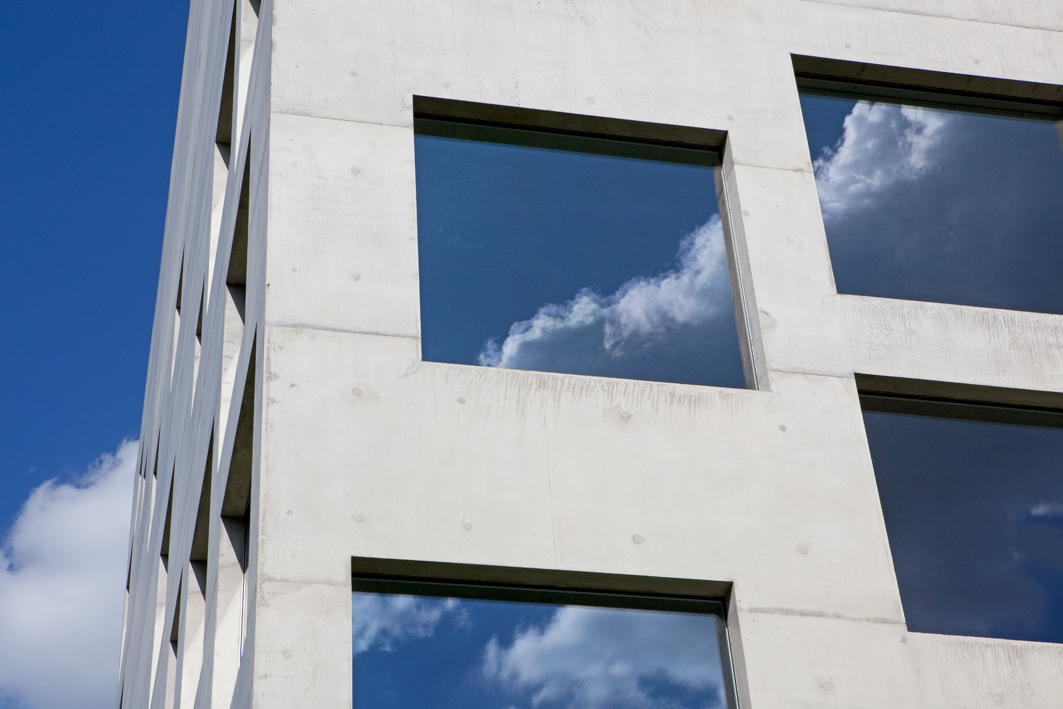 School of Management and Design at Zeche Zollverein, Essen, Germany